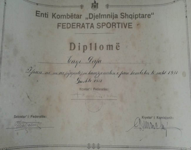 100 m viti 1931